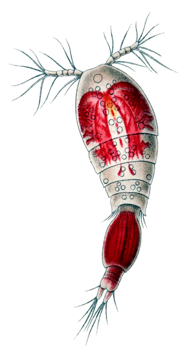 Oncaea venusta (Philippi, 1843, family Oncaeidae), male. Taken from the 56th plate of Ernst Haeckel's Kunstformen der Natur (1904) by Verlag des Bibliographischen Instituts, Leipzig and Vienna.